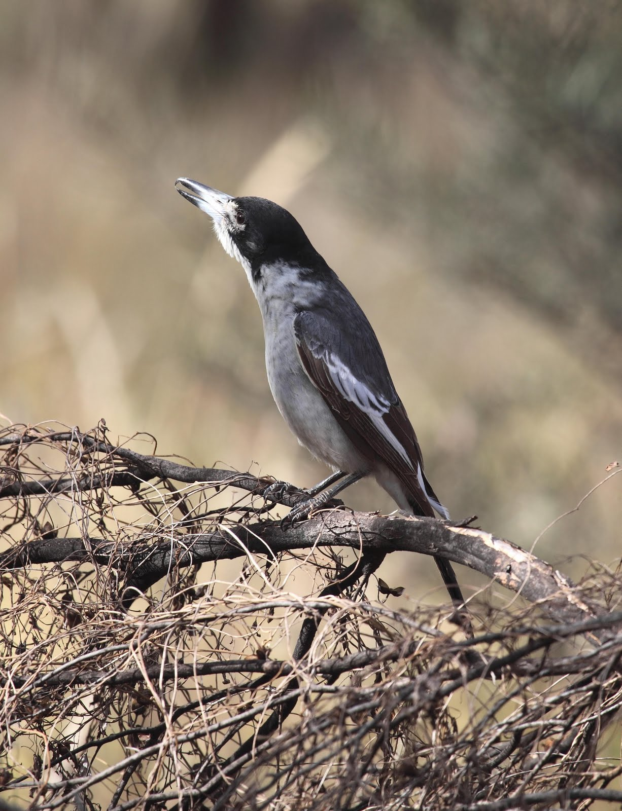 Grey Butcherbird (Cracticus torquatus), Northern Territory, Australia